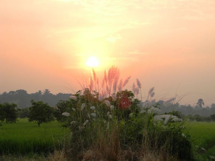 Some village in Hooghly